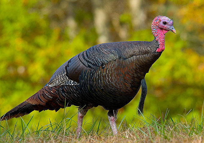 Public Domain image from English Wikipedia of a Wild Turkey (Meleagris gallopavo)